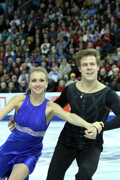 Nikita Katsalapov and Victoria Sinitsina at the 2016 World Figure Skating Championships.